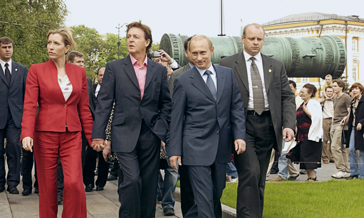 MOSCOW, KREMLIN, IVANOVSKAYA SQUARE. Russian President Vladimir Putin shows Kremlin sights to singer and composer Paul McCartney and his wife Heather Mills.